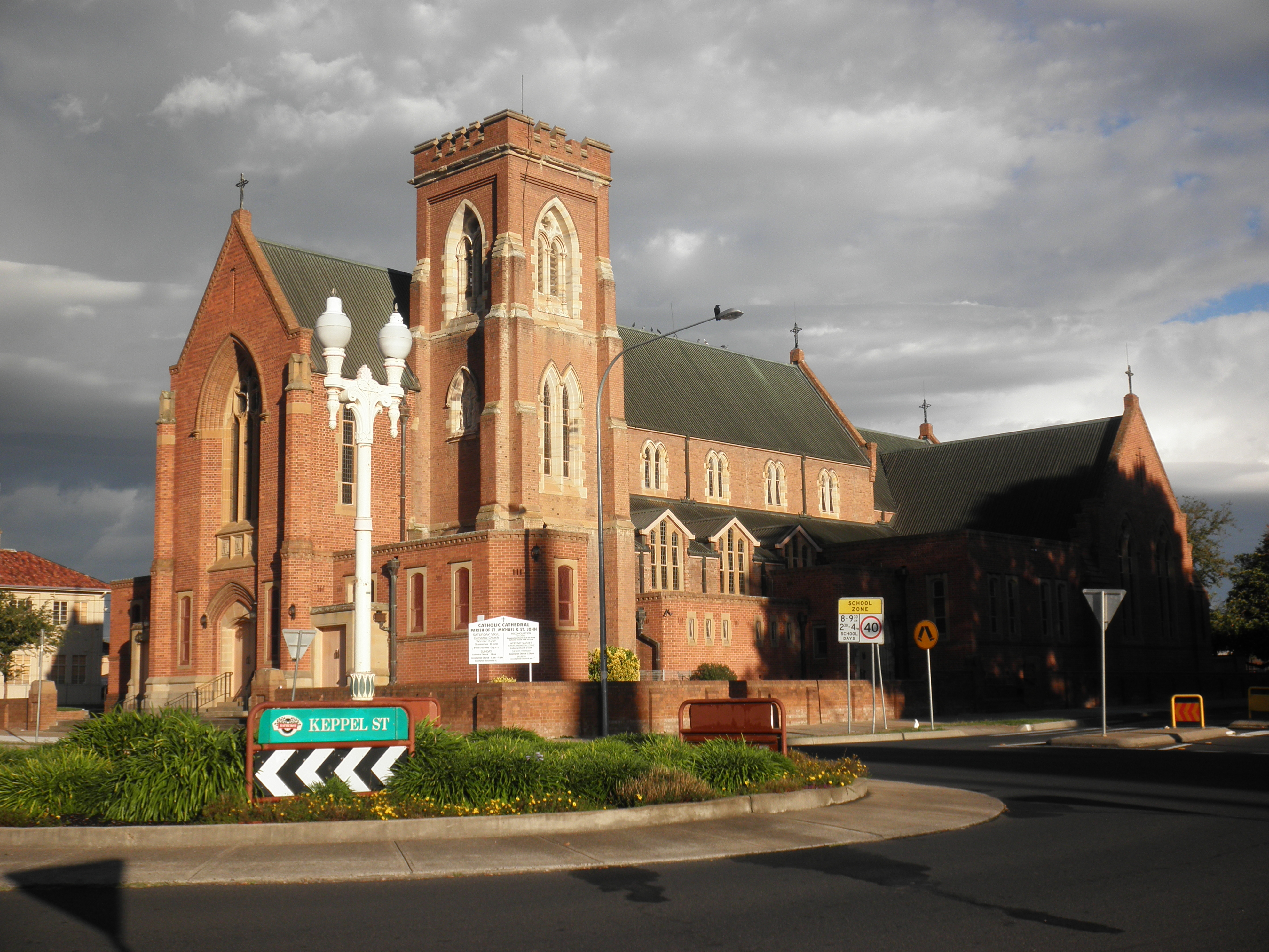 Catholic Cathedral at Bathurst, New South Wales, Australia. Known as St. Michael and St. John's Cathedral opened in April 1861.